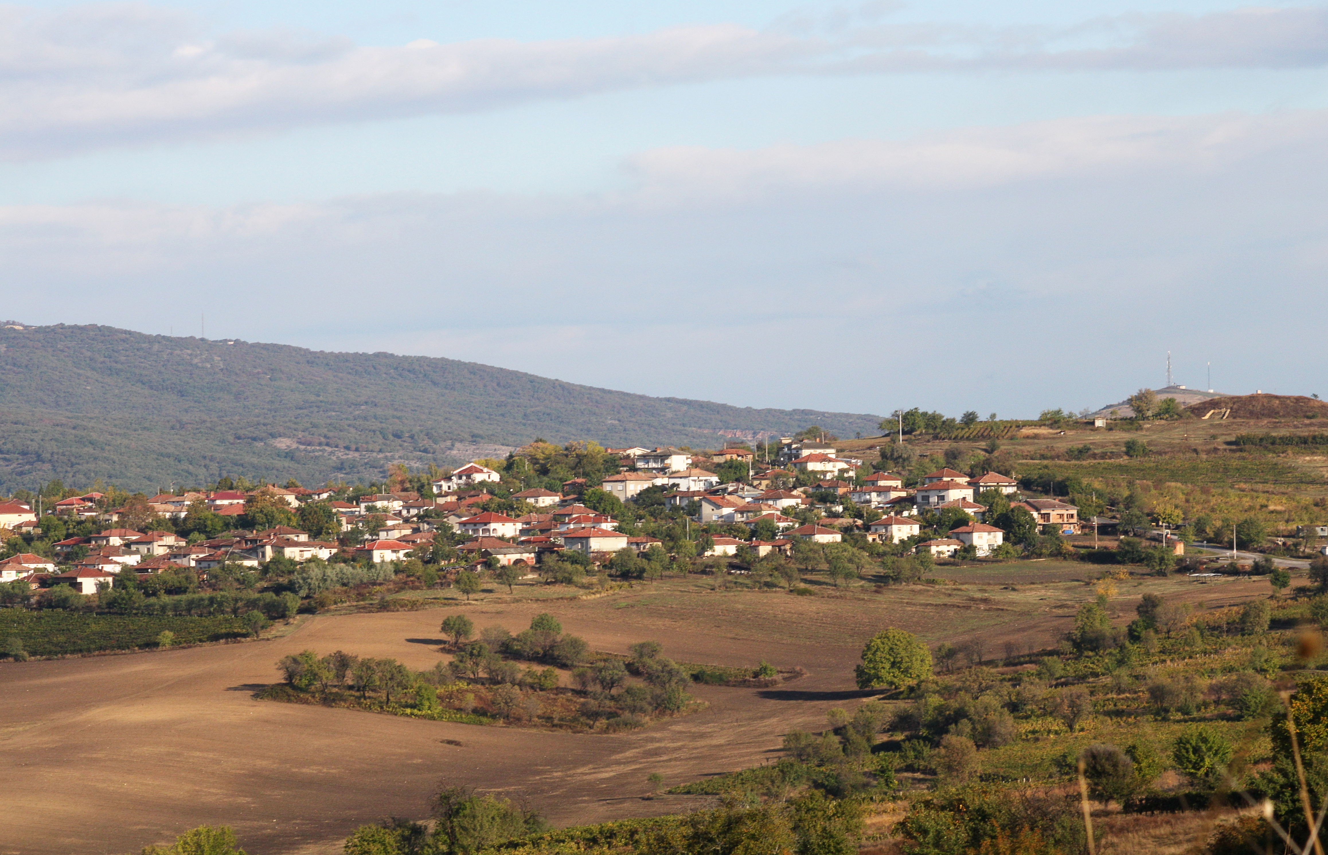 Svirachi, a village in the Rhodope Mountains, Bulgaria